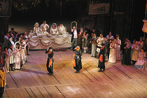 Victor Dolidze play Keto and Kote Georgia